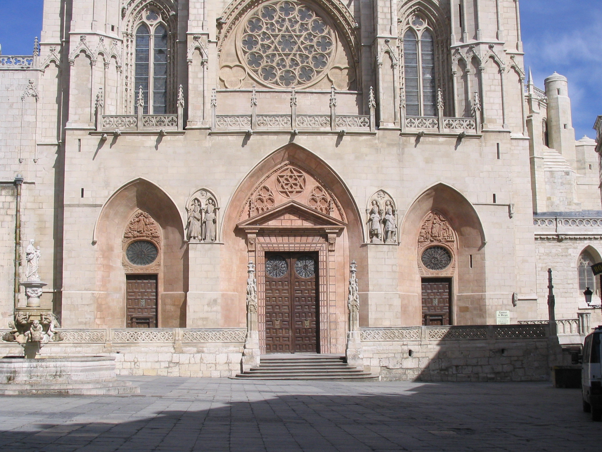 View of Burgos Cathedral. Taken by Daniel Canton on 3-5-2004.